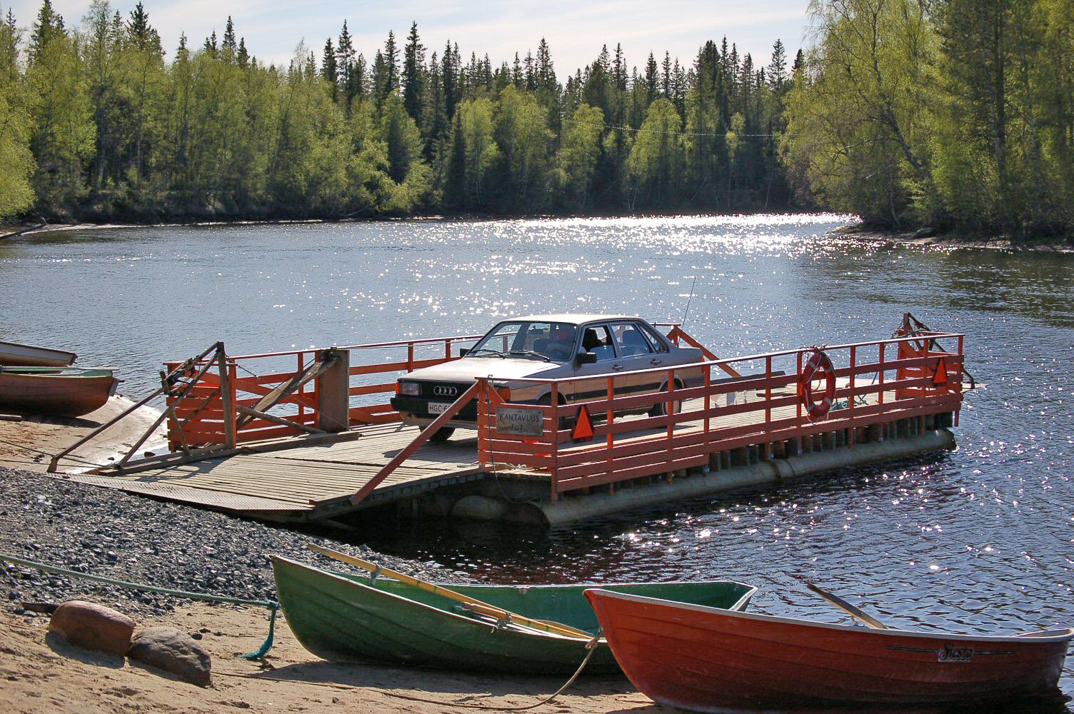 Manually operated cable ferry is a part of the private road connecting the island of Karhu to the mainland in Ii municipality, Finland. The ferry can carry a three-ton vehicle.